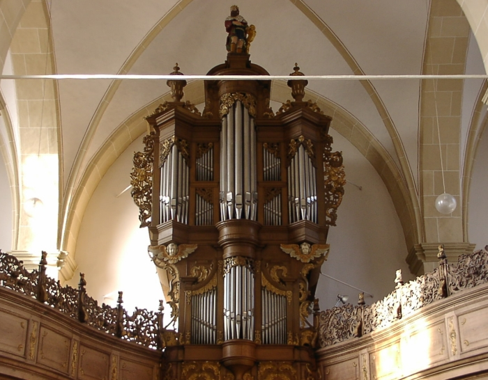 Organ of Cloister Kamp, Kamp-Lintfort